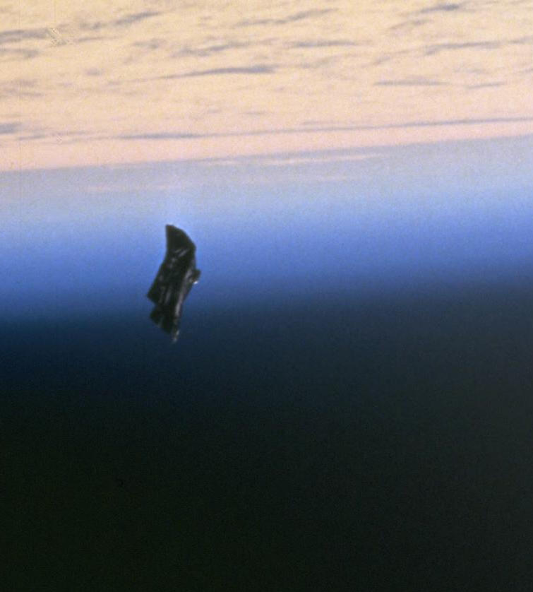 Detail of NASA photo id STS088-724-66 taken during Space Shuttle mission STS-88, described as showing an item of "space debris", an object claimed by conspiracy theorists to be an alien satellite, the Black Knight.